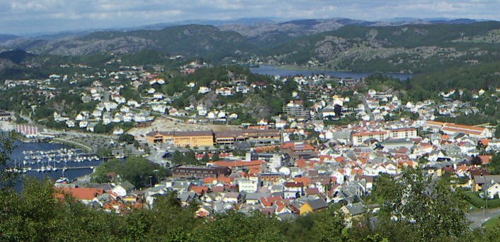 Egersund, a small town on the south west coast of Norway. Panoramic view from the top of Varberg.